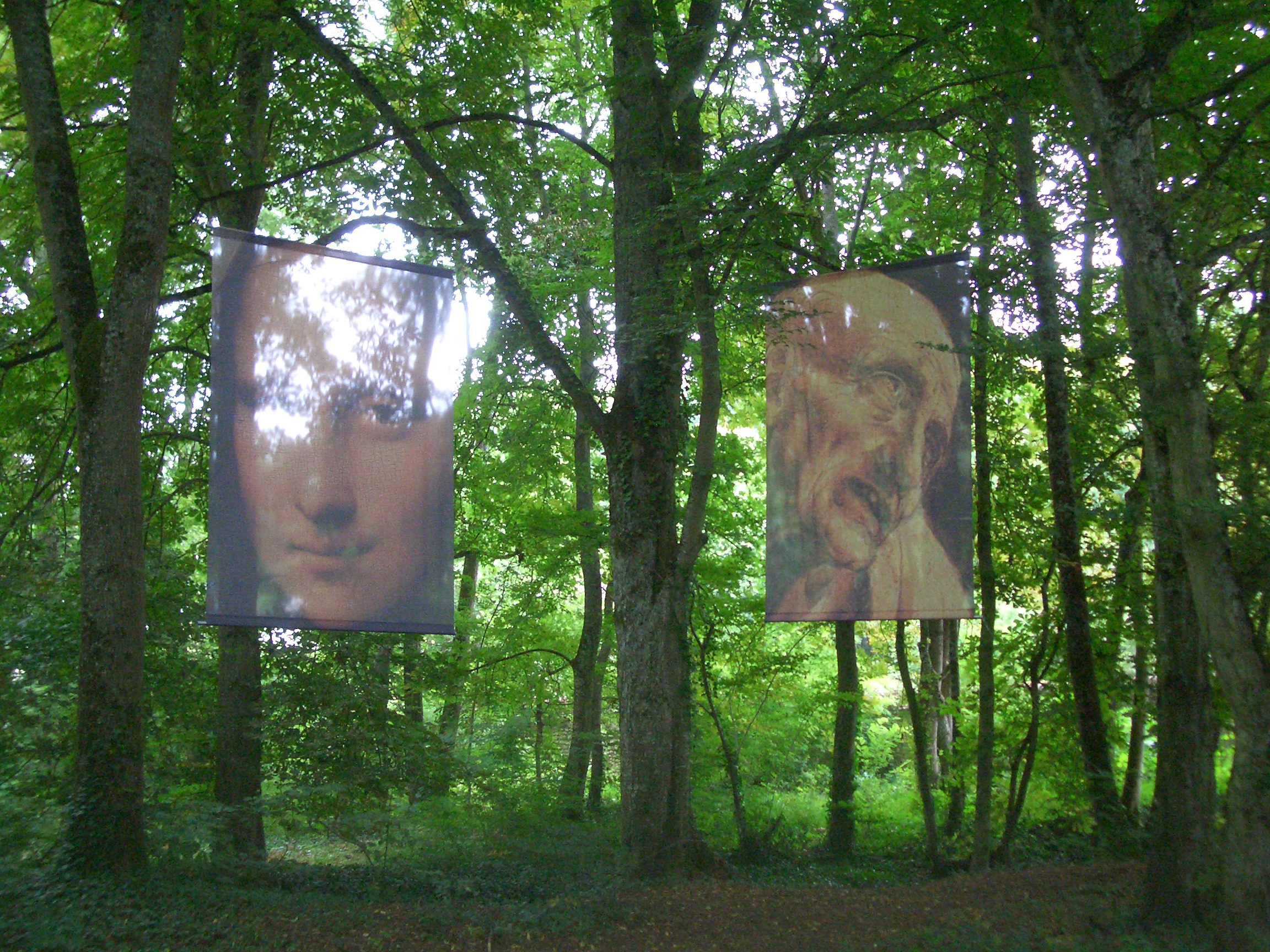 Silk screens in the garden